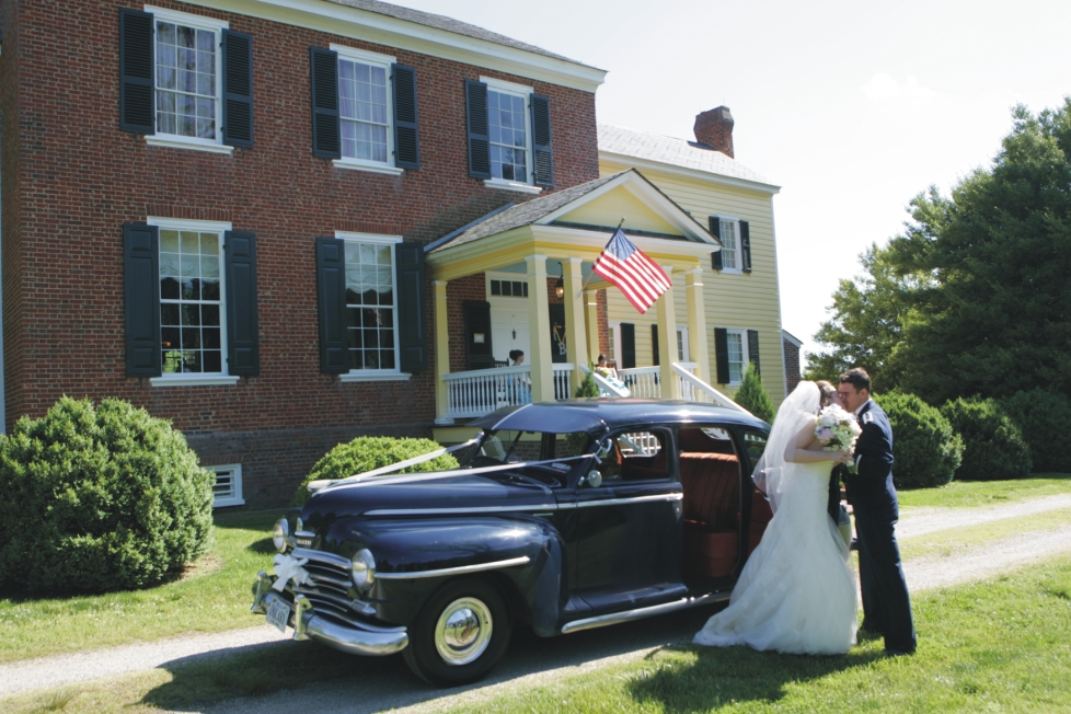 Clover Forest, James River Plantation, Goochland VA, near Richmond VA -- Classic Plymouth.